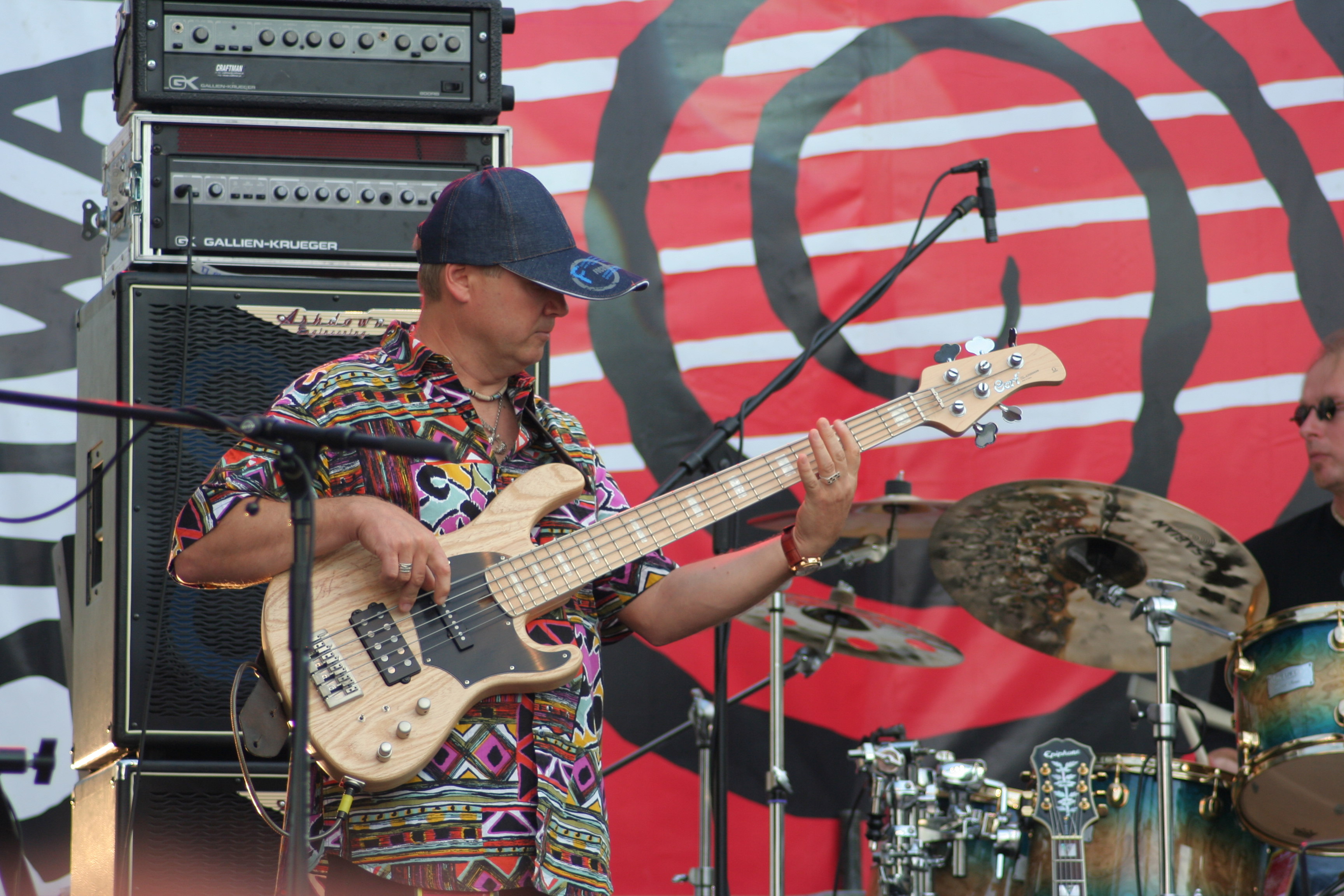 The Road Band at Suwałki Blues Fesival 2009 in Suwałki.